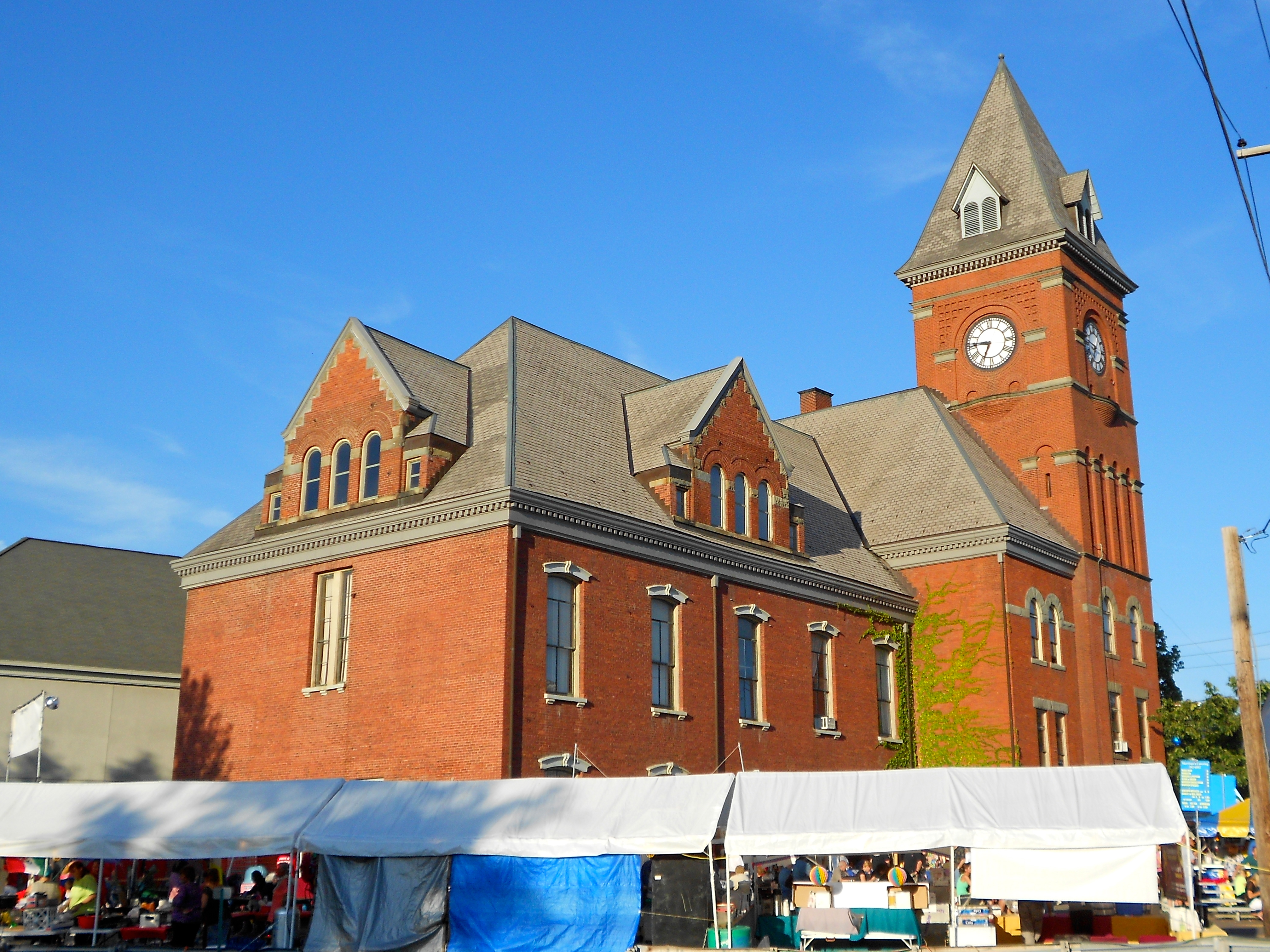 Carbondale City Hall and Courthouse, listed on the NRHP on January 6, 1983, at One North Main Street, Carbondale, Lackawanna County, Pennsylvania. NOT the county seat . from the rear of the building during a street festival.